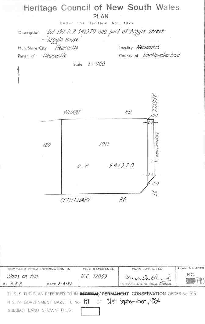 Argyle House, Newcastle: PCO Plan Number 315